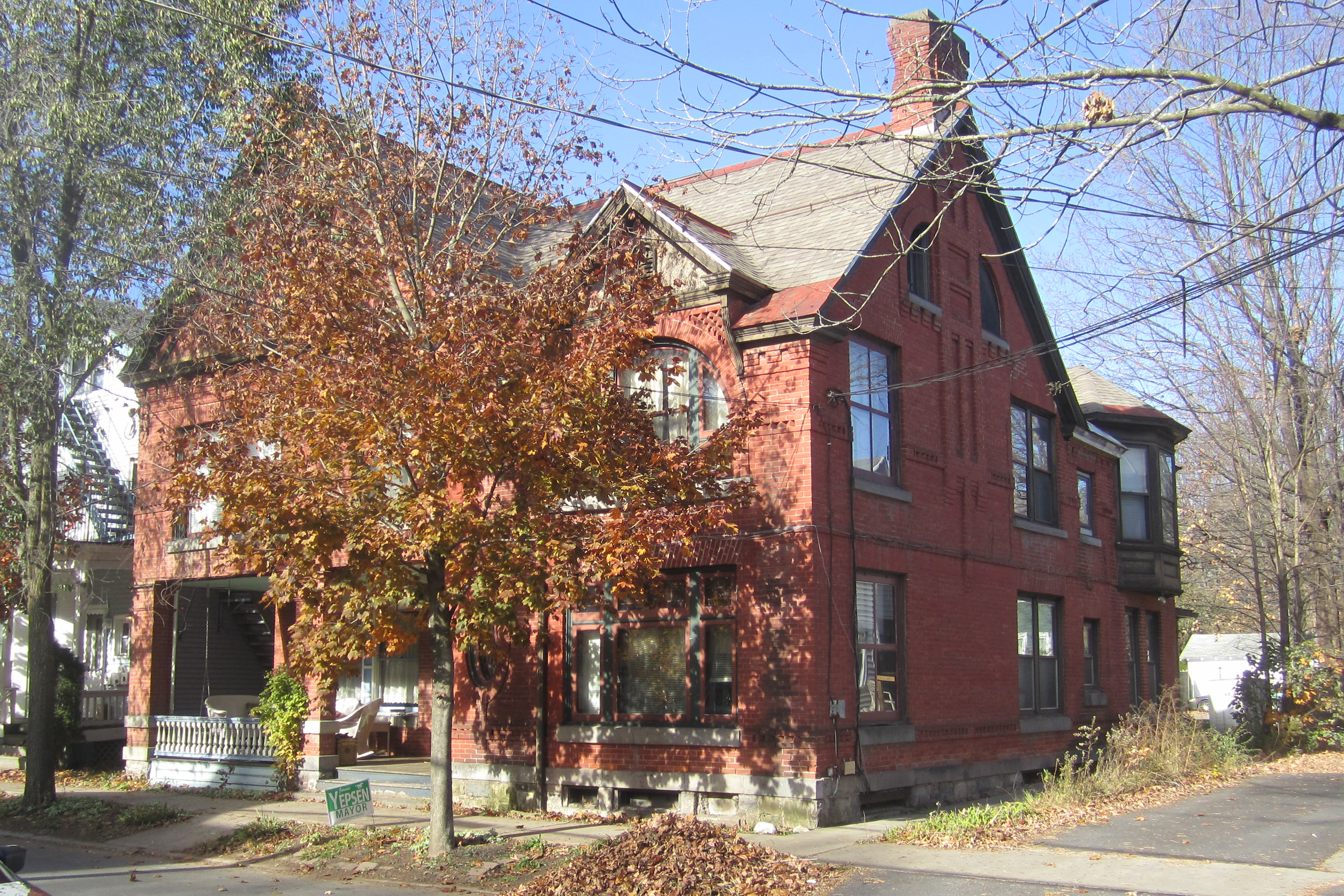 Home designed by R. Newton Brezee for Dr. William H. Hodgemen, 1887.